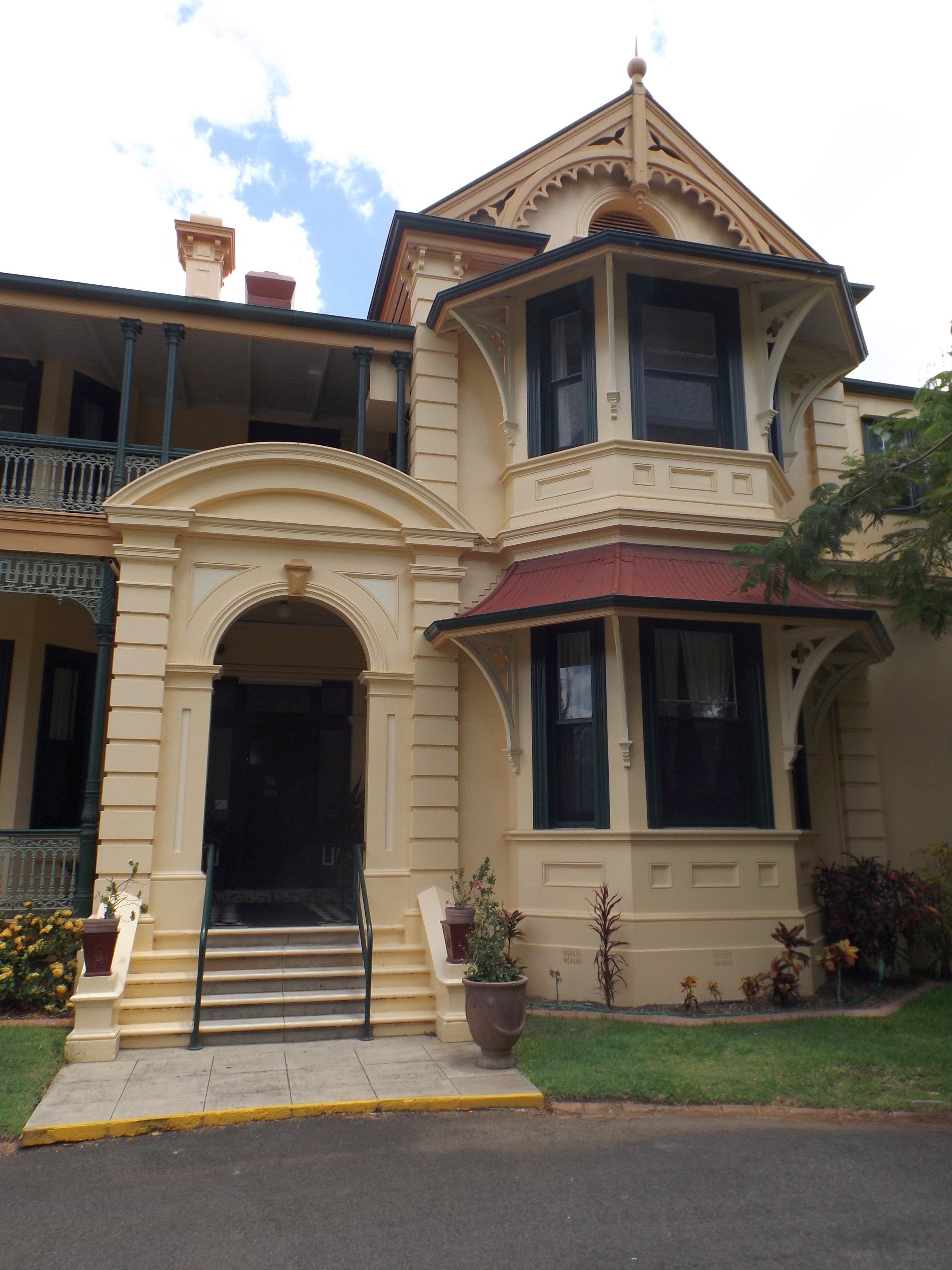 Photo of the entrance to Beth-Eden at Graceville, Brisbane, Queensland, Australia.